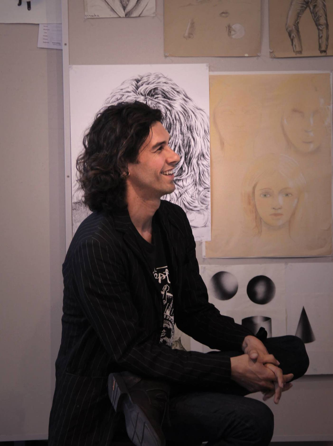 photo by Cindy Lynch